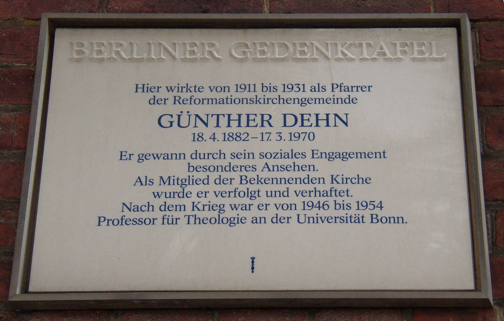 Berlin memorial plaque for Günther Dehn in Berlin-Moabit, Germany